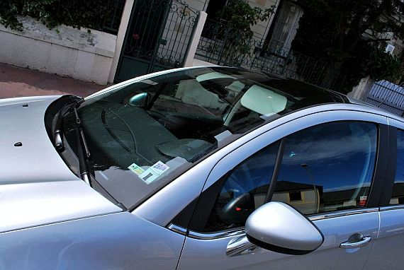 Citroëna C3 second generation.